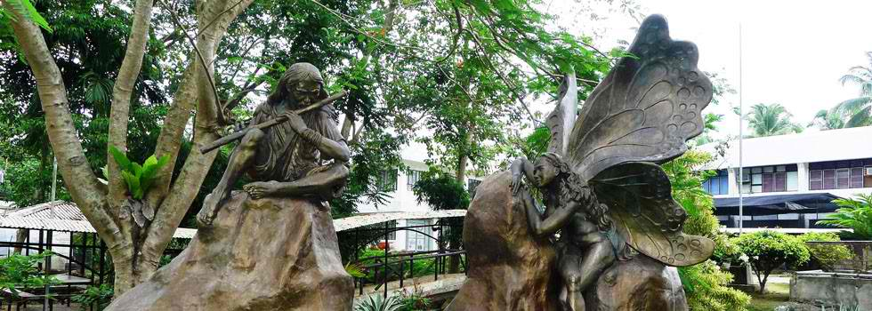 Statues by "Kublai" Millan in the CSM grounds.